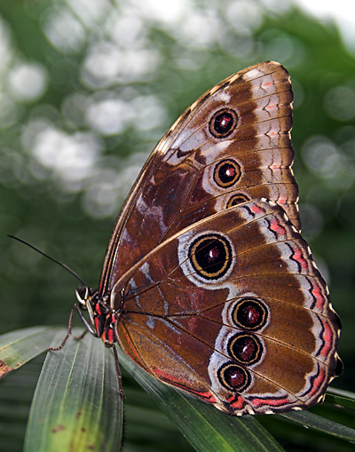 Morpho peleides